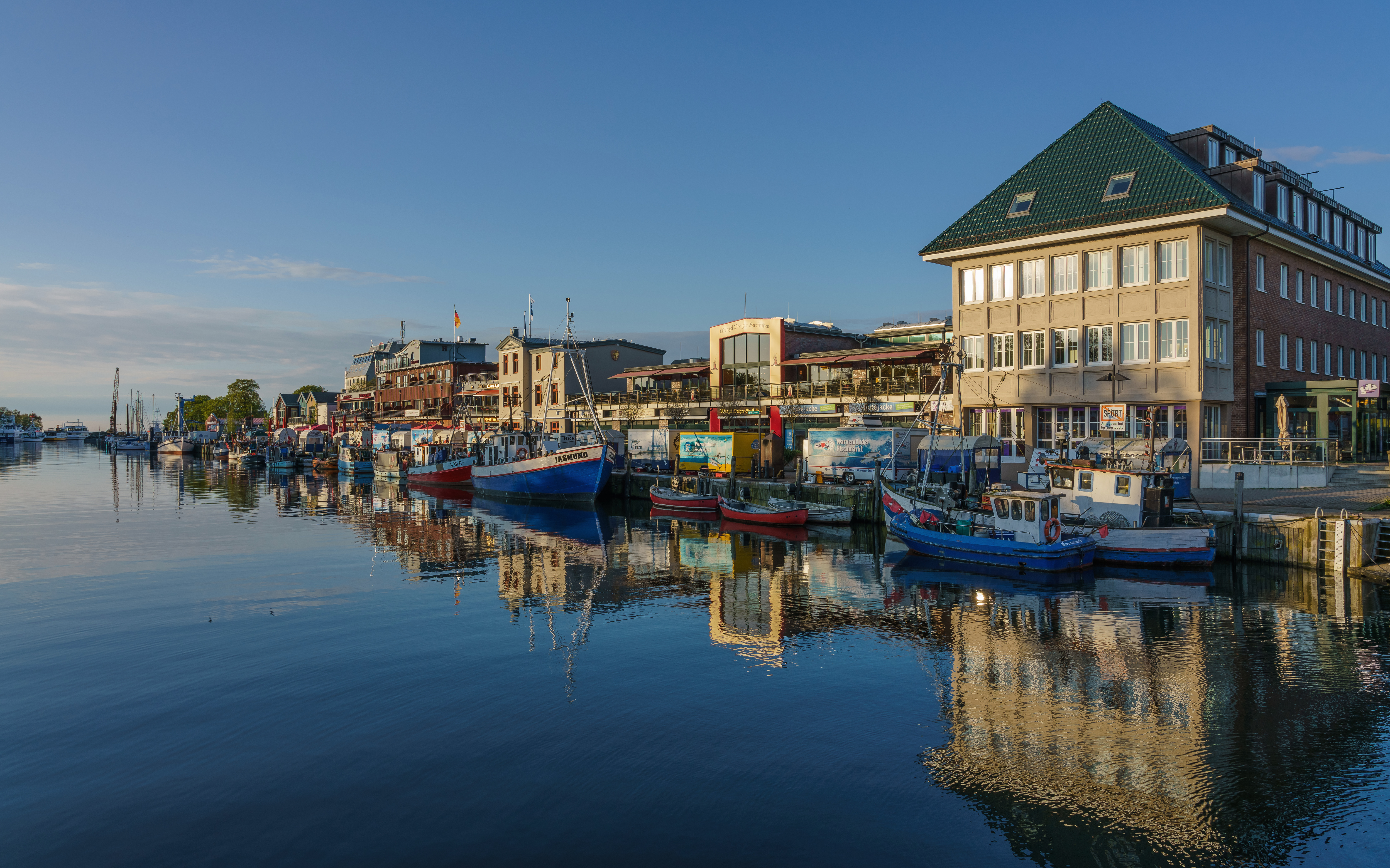 Surroundings of the port of Warnemünde, Rostock, Germany